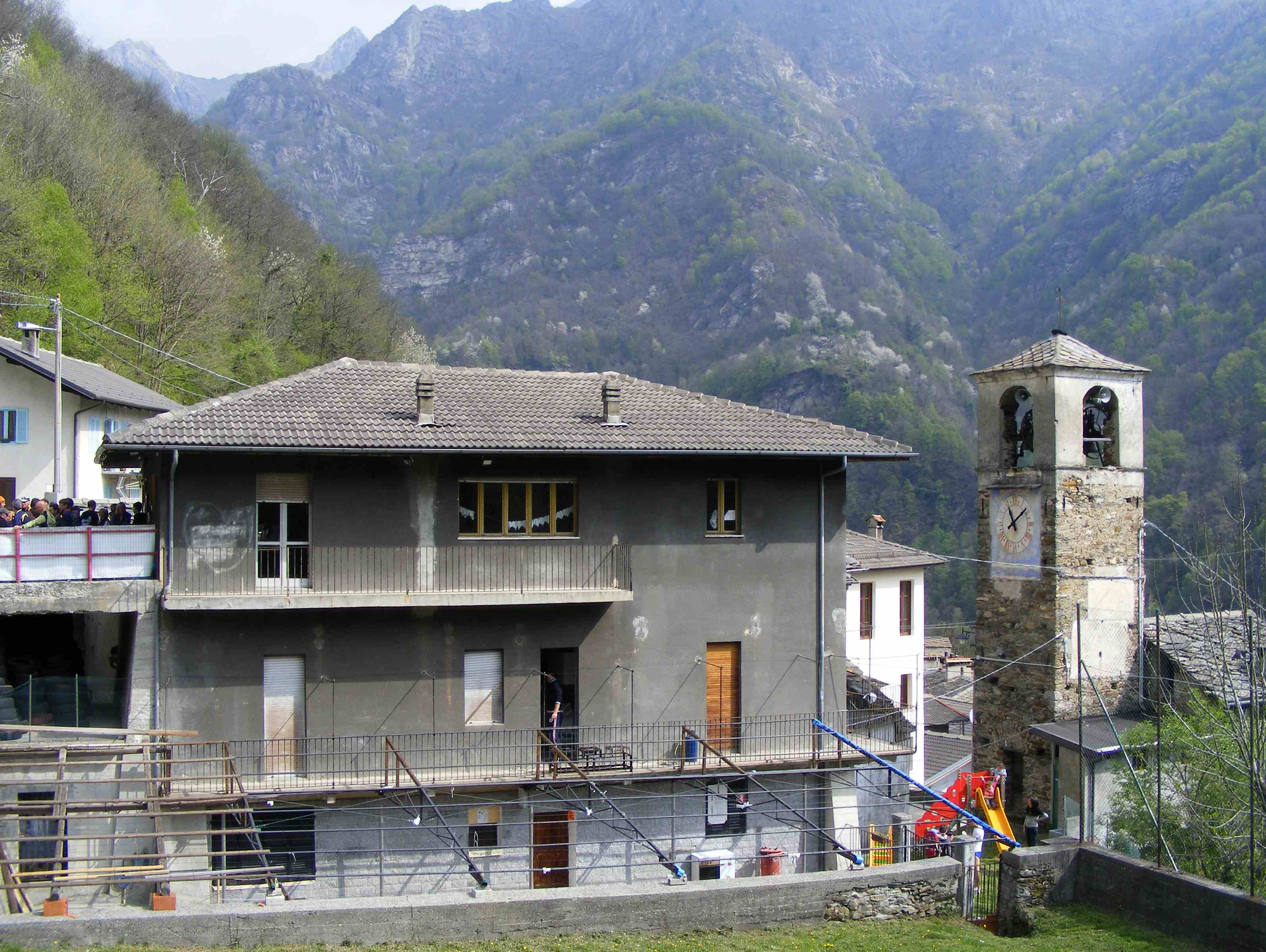 Ingria (TO, Italy), panorama